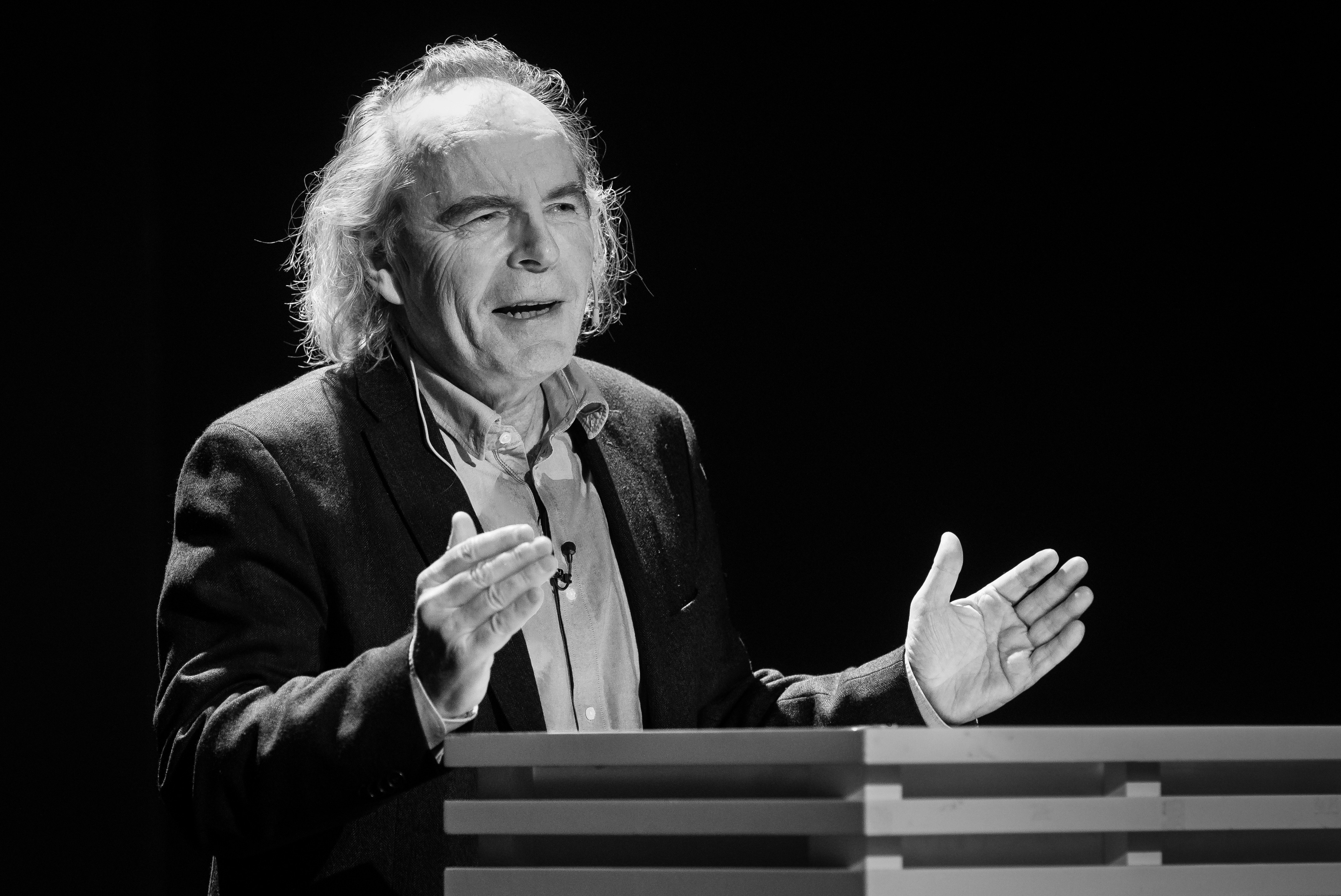 Terje Tvedt at Litteraturhuset in Oslo.